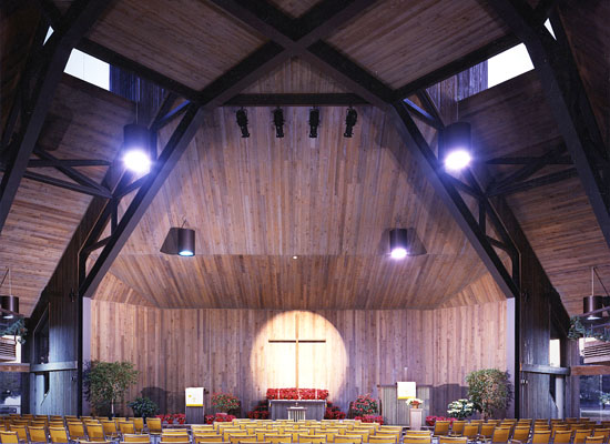 Presbyterian Church sanctuary in Tampa, Florida, designed by John Howey